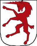 Coat of arms of Gachnang, Canton of Thurgau, Switzerland.